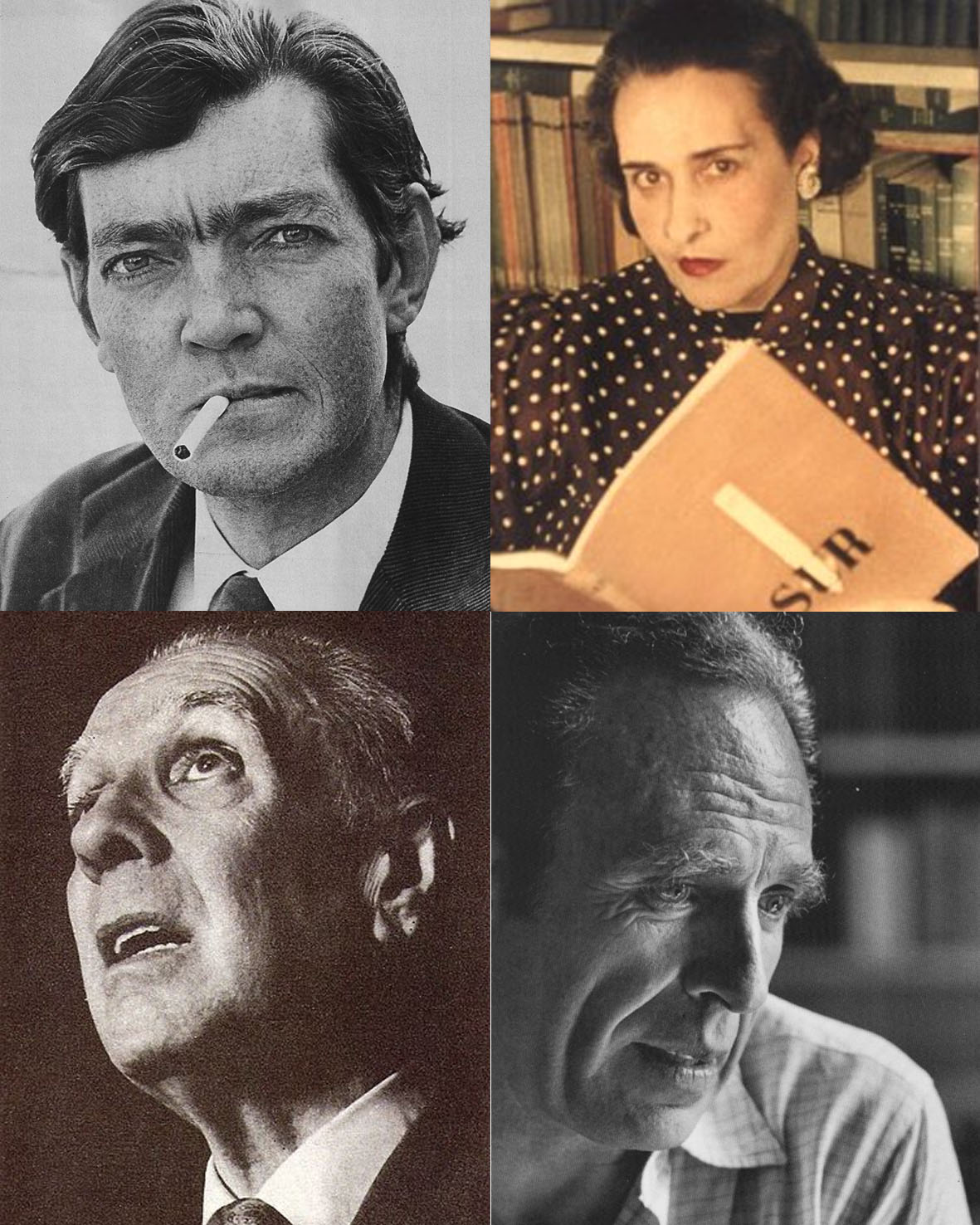 Compiled image from four images on Commons: Clockwise from top left: Julio Cortázar, circa 1967Victoria Ocampo, circa 1931Jorge Luis Borges, circa 1978Adolfo Bioy Casares, circa 1968